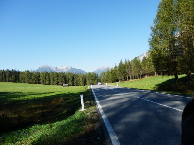 Holzleitensattel pass summit, view to westnorthwest